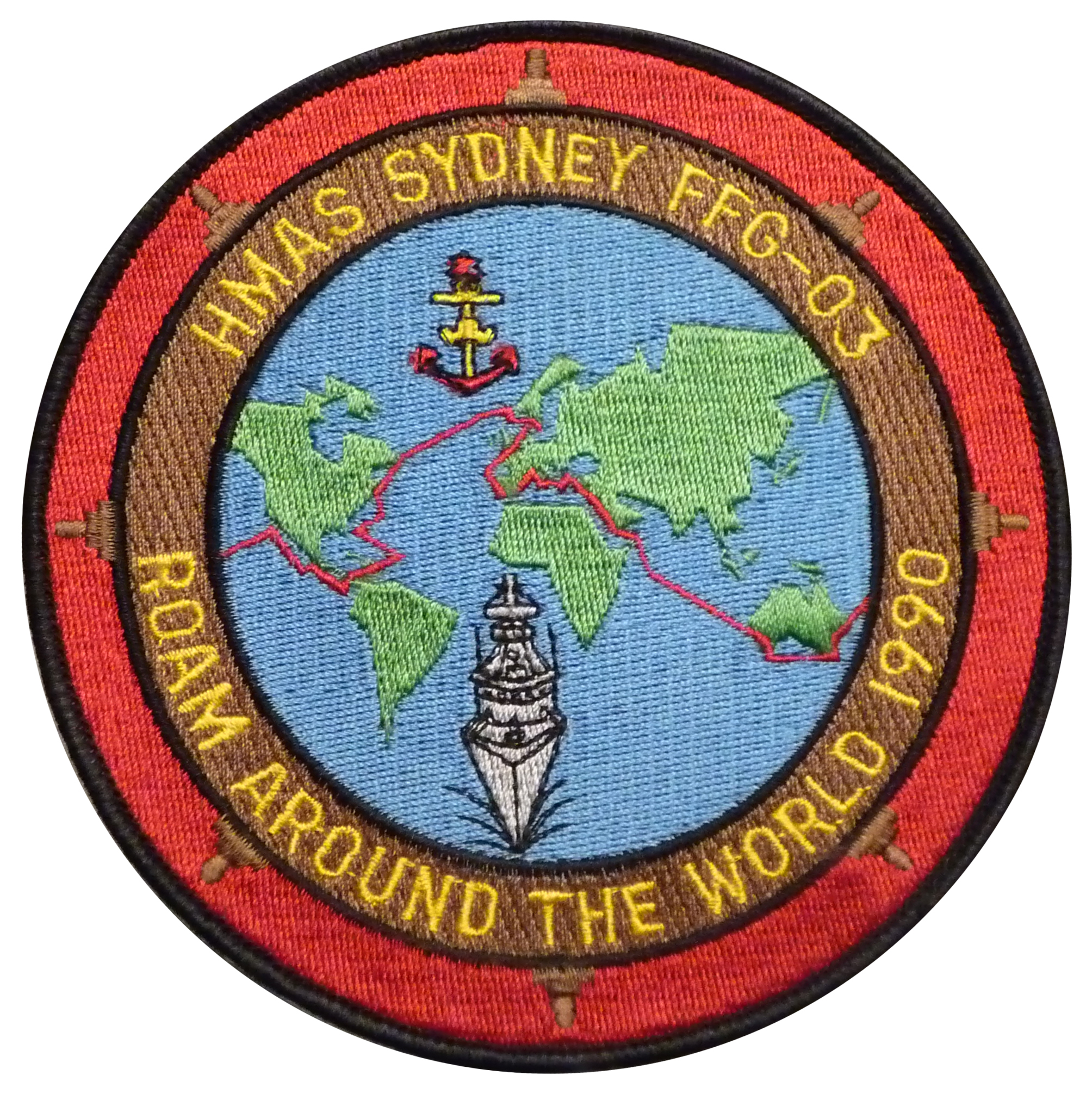 Commemorative badge of HMAS Sydney's round the world trip in 1990, on display in the Australian National Maritime Museum, Darling Harbour, Sydney.